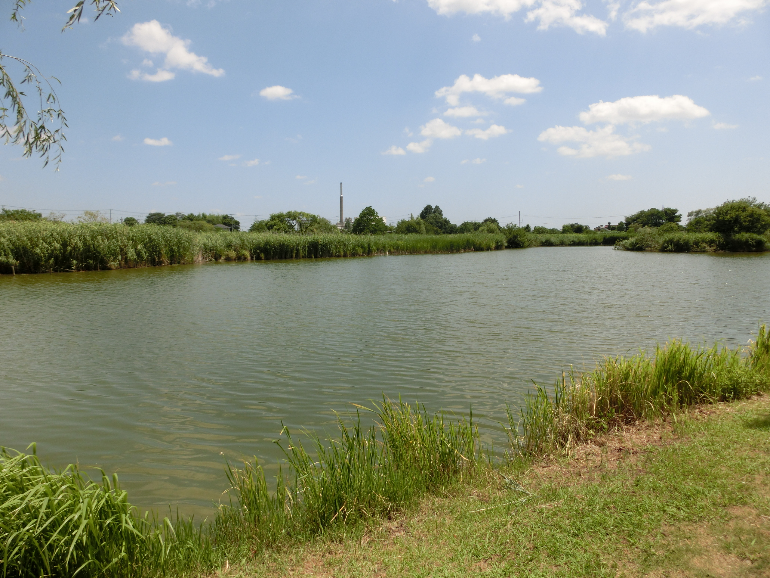 Hozoji-numa